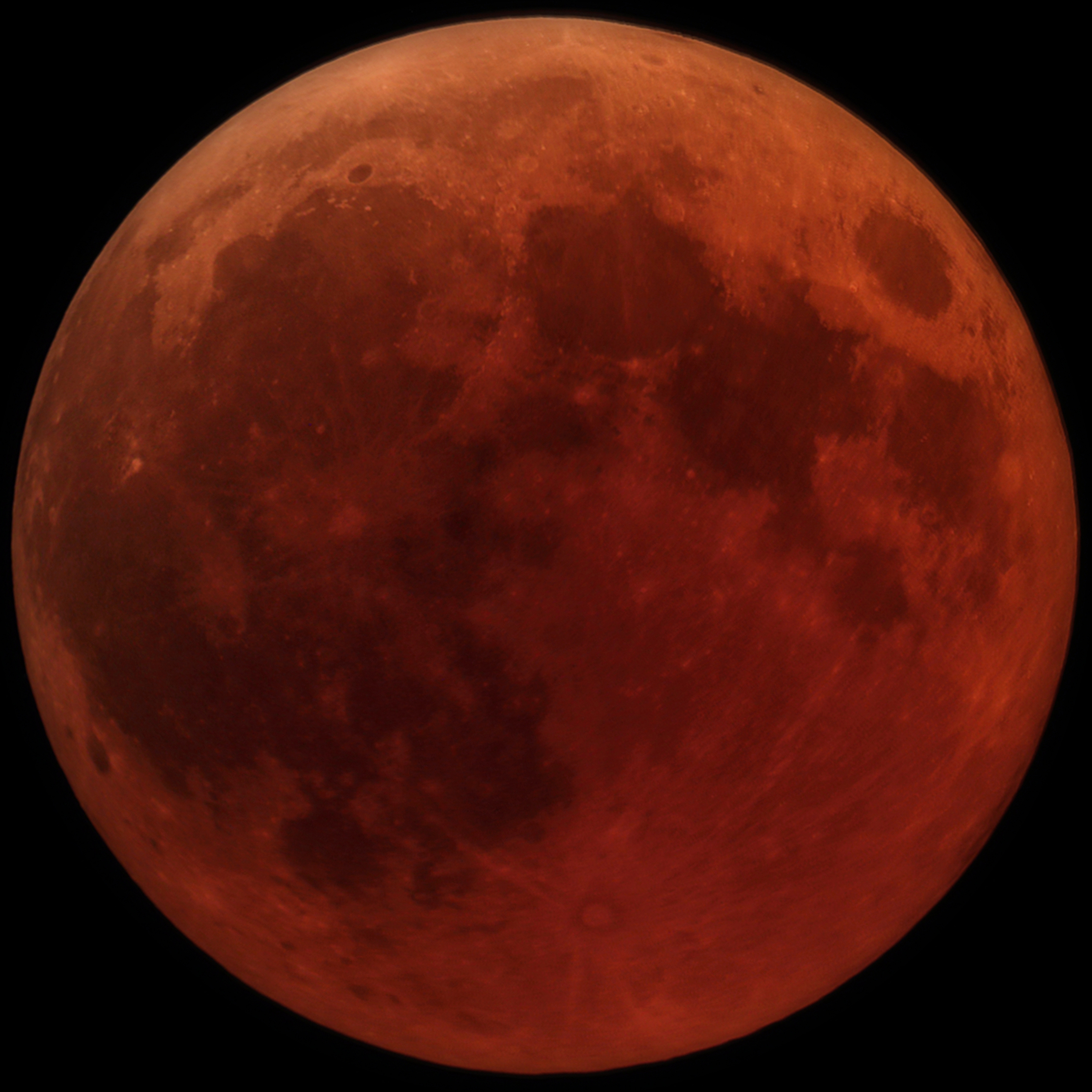 Lunar Total Eclipse on July 27, 2018 (100_2006)